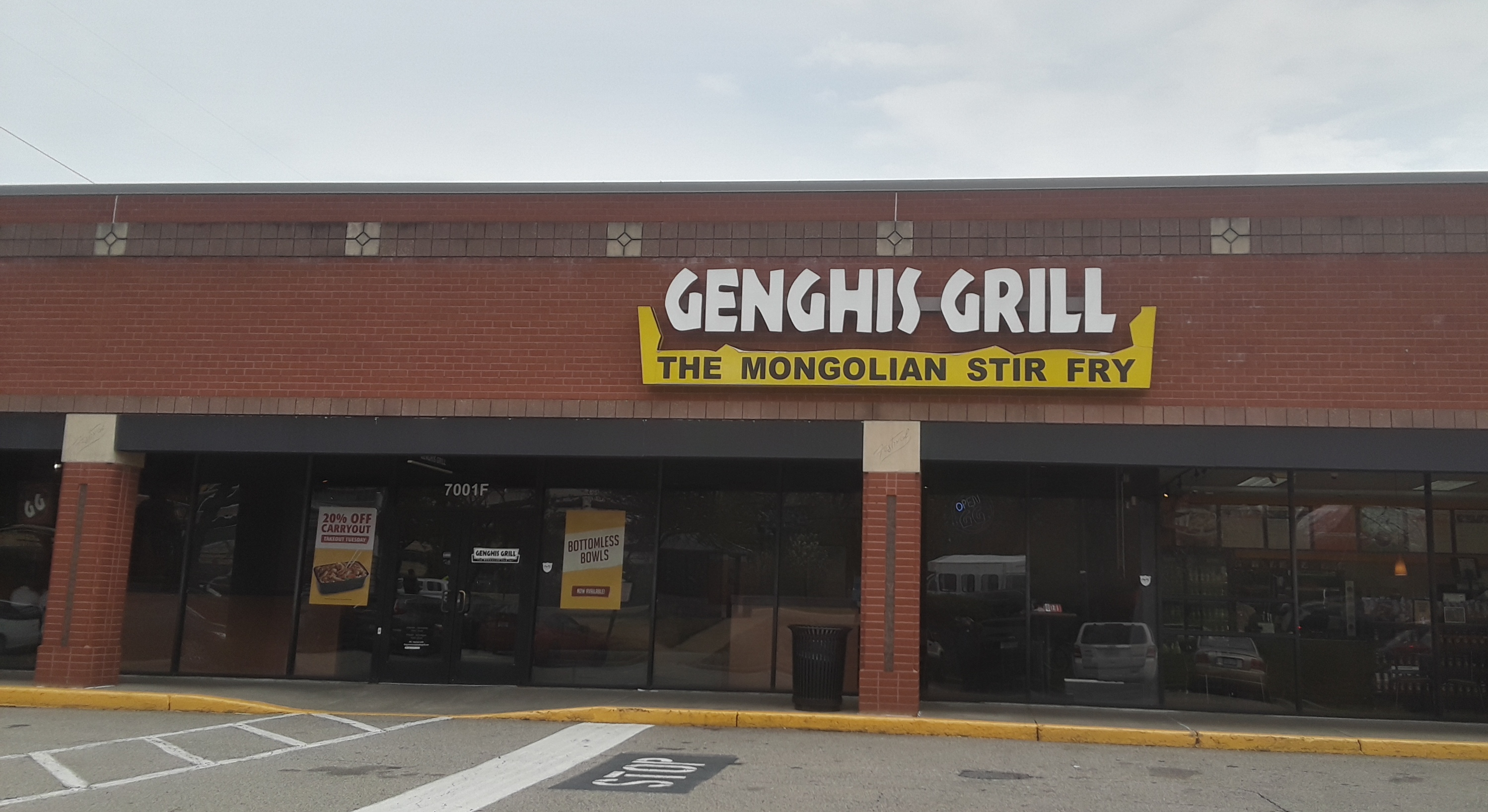 Festival at Manchester Lakes